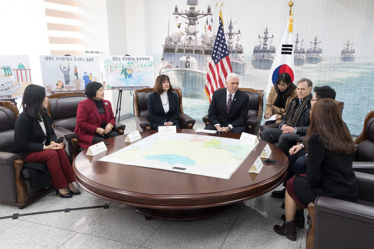 "Karen & I were honored to meet w/ victims of the oppressive North Korean regime. We heard the harrowing stories of defectors who risked life & limb for freedom, & from Fred Warmbier, father of the late Otto Warmbier. We admire their resilience. #VPinASIA"